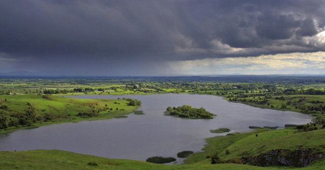 Geroid Island, Lough Gur According to legend, the goddess Aine, like the Breton Morgan, may sometimes be seen combing her hair, only half her body appearing above the lake. And in times of calmness and clear water, according to another legend, one may behold beneath Aine’s lake the lost enchanted castle of her son Geroid, close to Garrod Island—so named from Gerdid or ‘Gerald’.